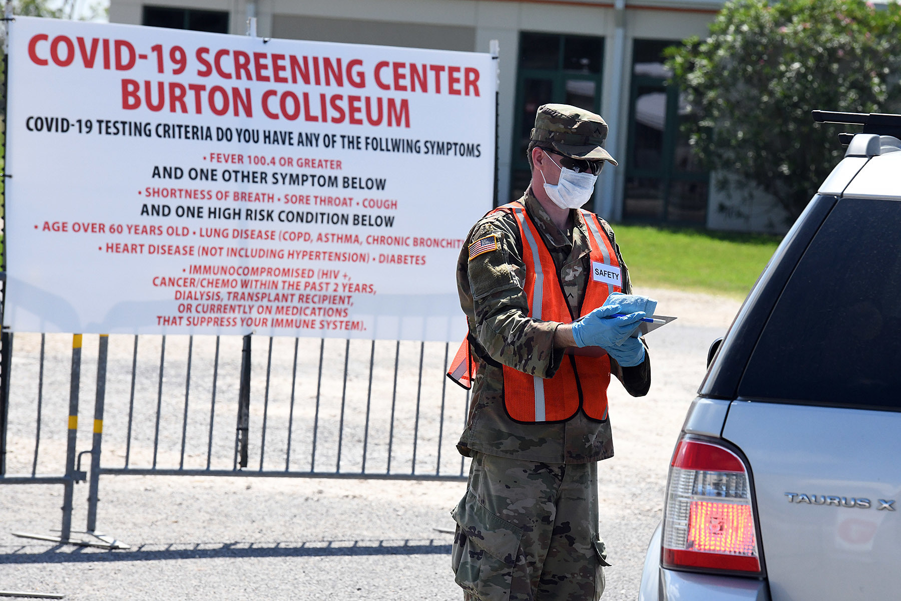 Pvt. Pat Dawsonhassell, a 20-year-old Lake Charles resident with Headquarters and Headquarters Company, 3rd Battalion, 156th Infantry Regiment, 256th Infantry Brigade Combat Team, screens patients at a COVID 19 mobile testing site at Burton Coliseum in Lake Charles, Louisiana, March 26, 2020. (U.S. Air Force National Guard photo by Master Sgt. Toby Valadie)